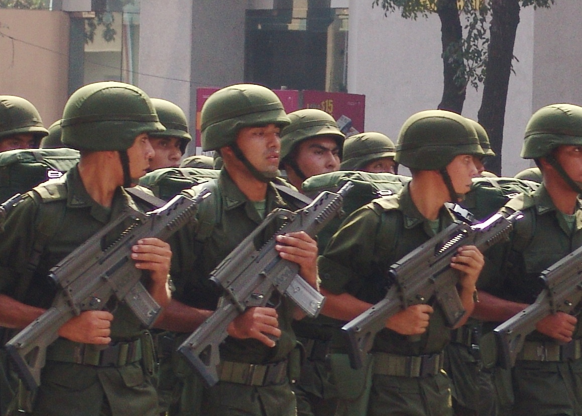 FX-05 "Xiuhcoatl" 5.56x45mm NATO carbine variant in a Mexican Army parade in Mexico City